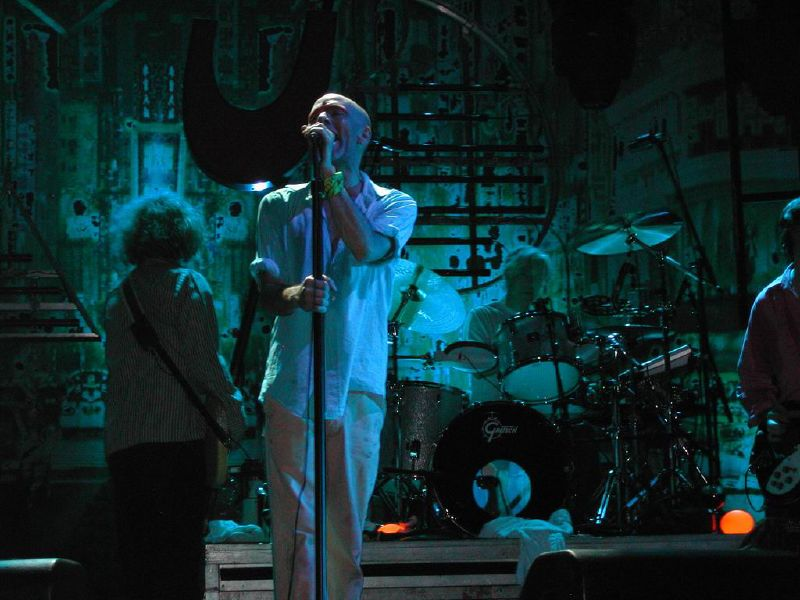 United States rock band R.E.M., in concert in Padova. From left to right; bassist Mike Mills, vocalist Michael Stipe, drummer Bill Rieflin, guitarist Peter Buck (half out of frame).